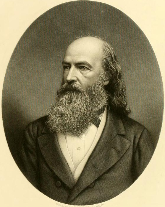 Portrait of New York state senator James Gibson